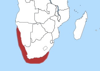 The Distribution of the African Penguin